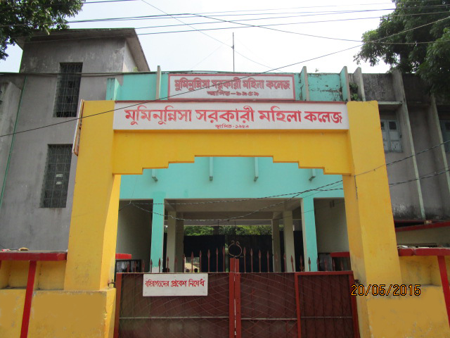 The main gate of Muminunnesa Govt. Women's College